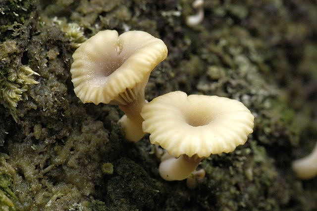 Lichenomphalia umbellifera from Commanster, Belgium. The determination of the species shown in this picture has been verified.